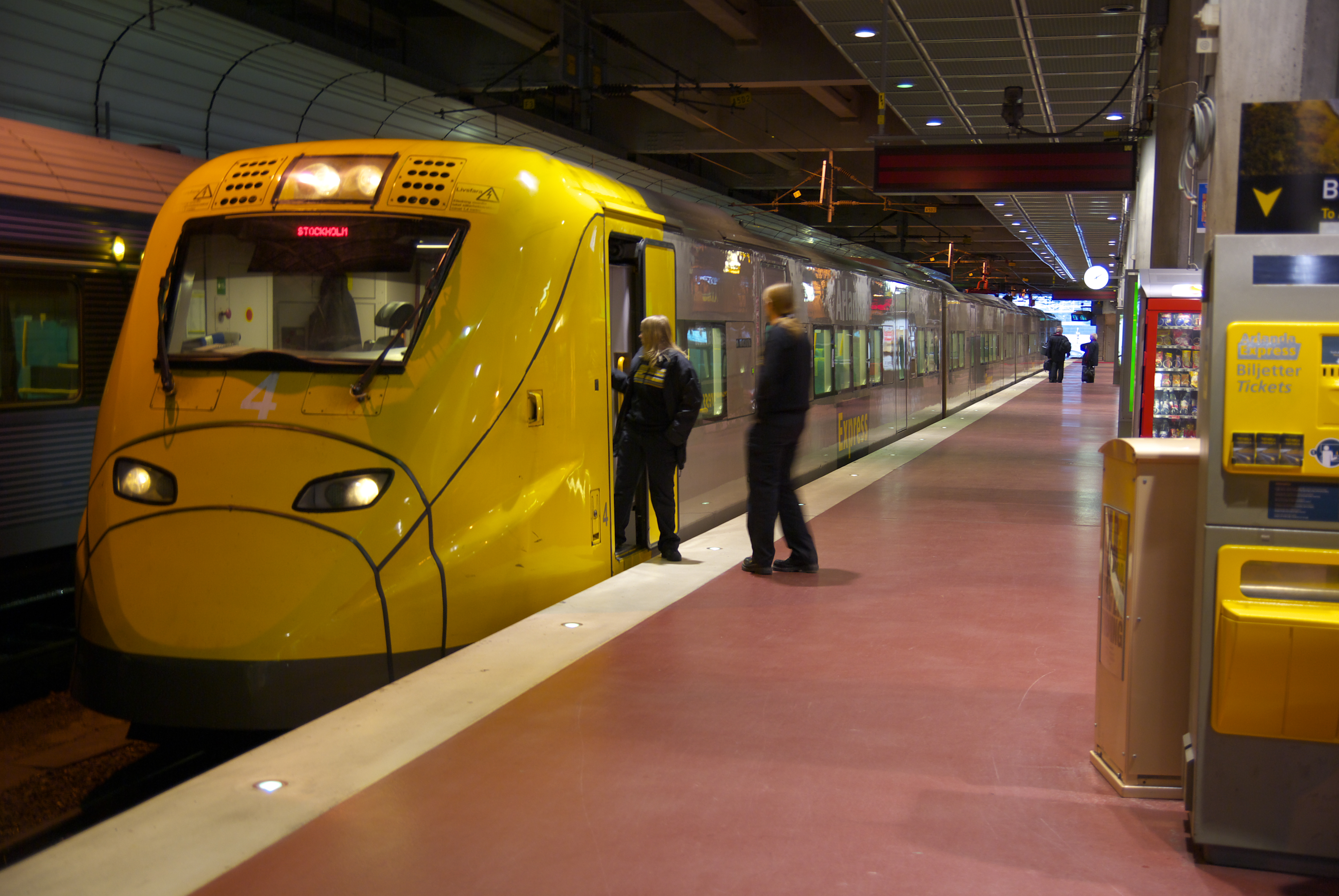 Arlanda Express airport train from central Stockholm to Arlanda airport. Taken at Stockholm Centralstation.